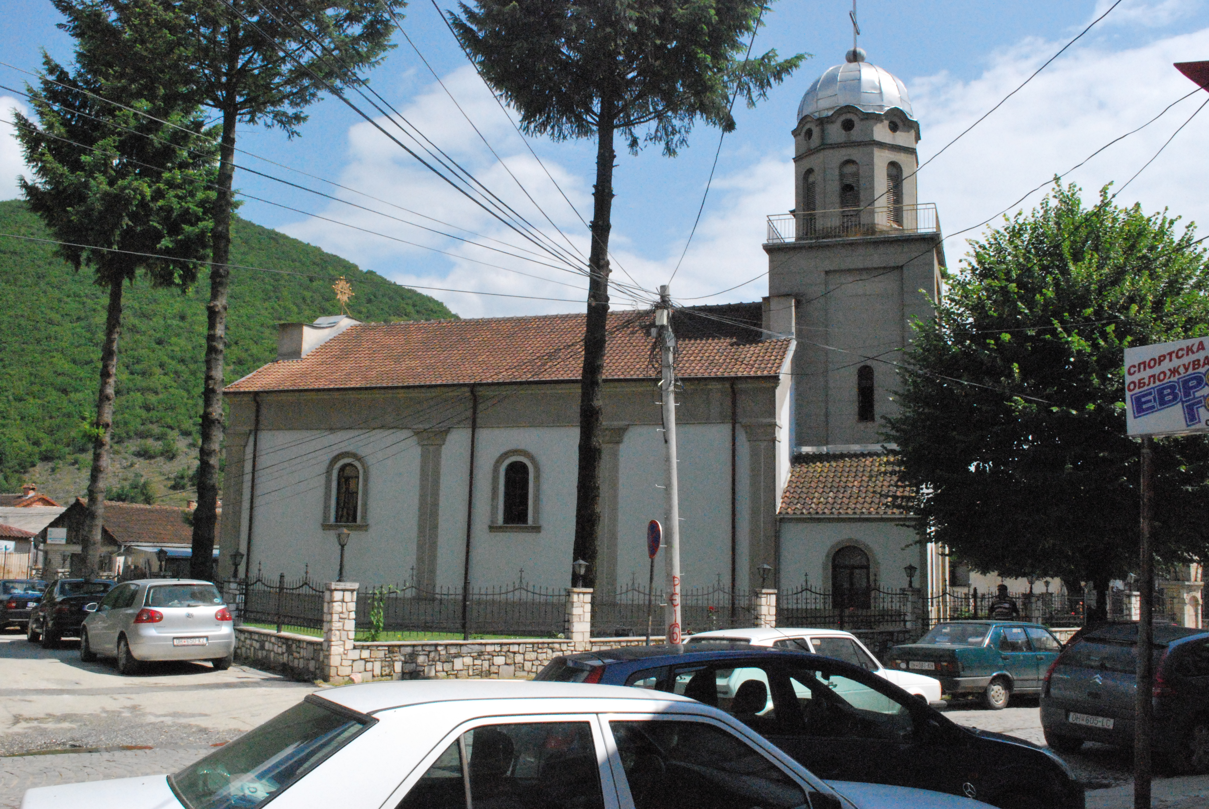 Sts. Peter and Paul Church in Kičevo, Macedonia